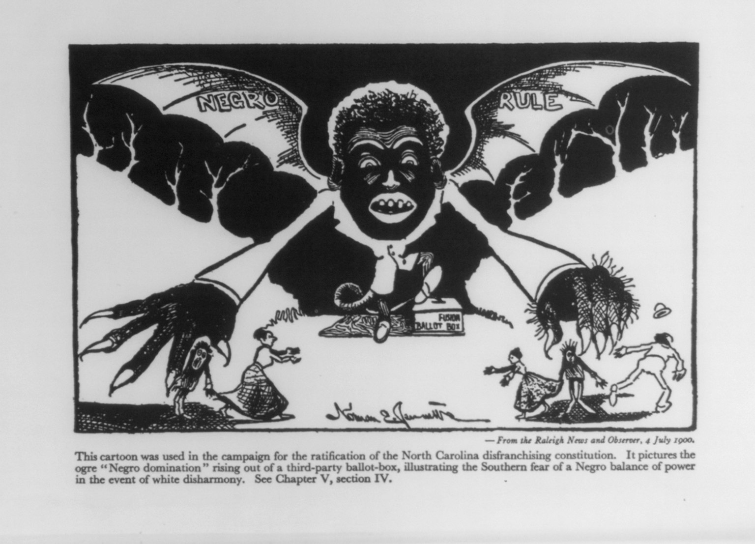 Title: Cartoon used in the campaign for the ratification of the North Carolina disfranchising constitution: shows hideous Negro vampire bat "Negro Rule" rising from a "fusion (3rd party) ballot box" Abstract/medium: 1 item.